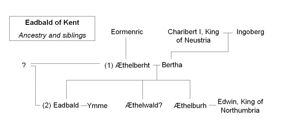 The ancestry and siblings of Eadbald, 7C king of Kent.